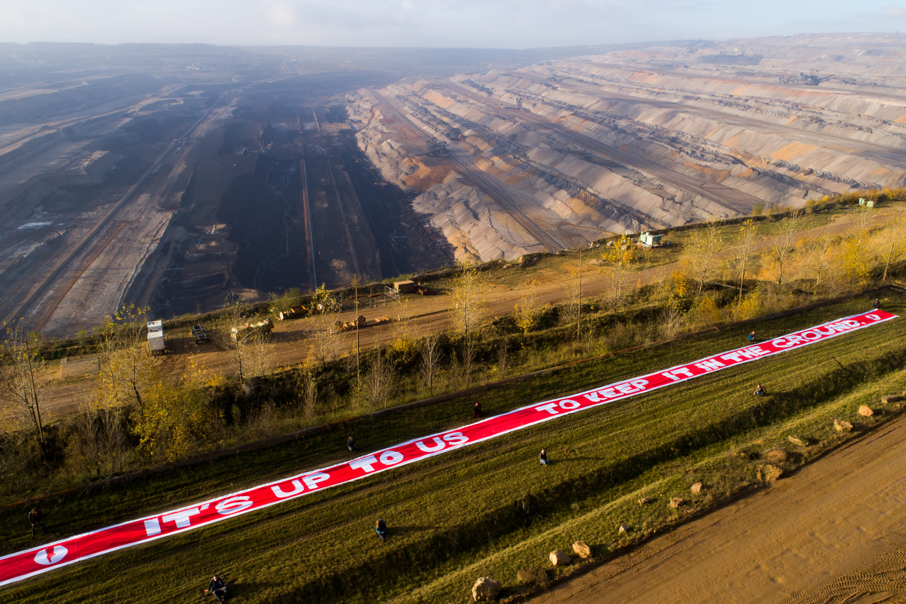 JunepA unfolded a huge banner in the Hambach lignite mining pit, 2017 – "It's up to us to keep it in the ground."